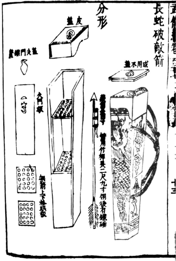 An illustration of a "long serpent" (長蛇) fire arrow rocket launcher as depicted in the 11th century book Wujing Zongyao.